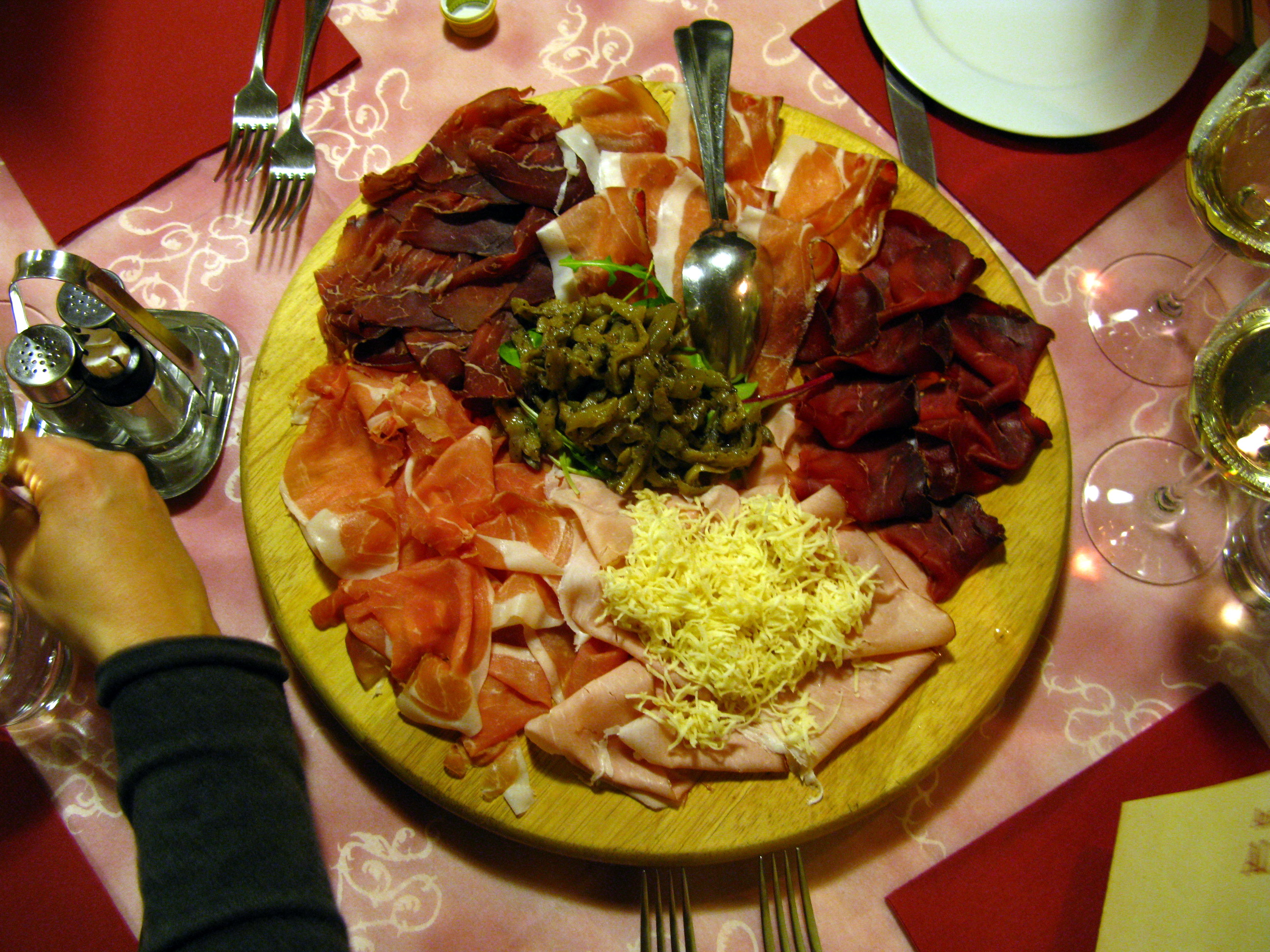 Friulian meats served in the Antica Trattoria Osteria Al Montone in Camporosso is a village near Tarvisio in Friuli-Venezia Giulia / Italy. On the wooden board lying bacon, pickled ham, dried meat, horseradish and vegetable oil.